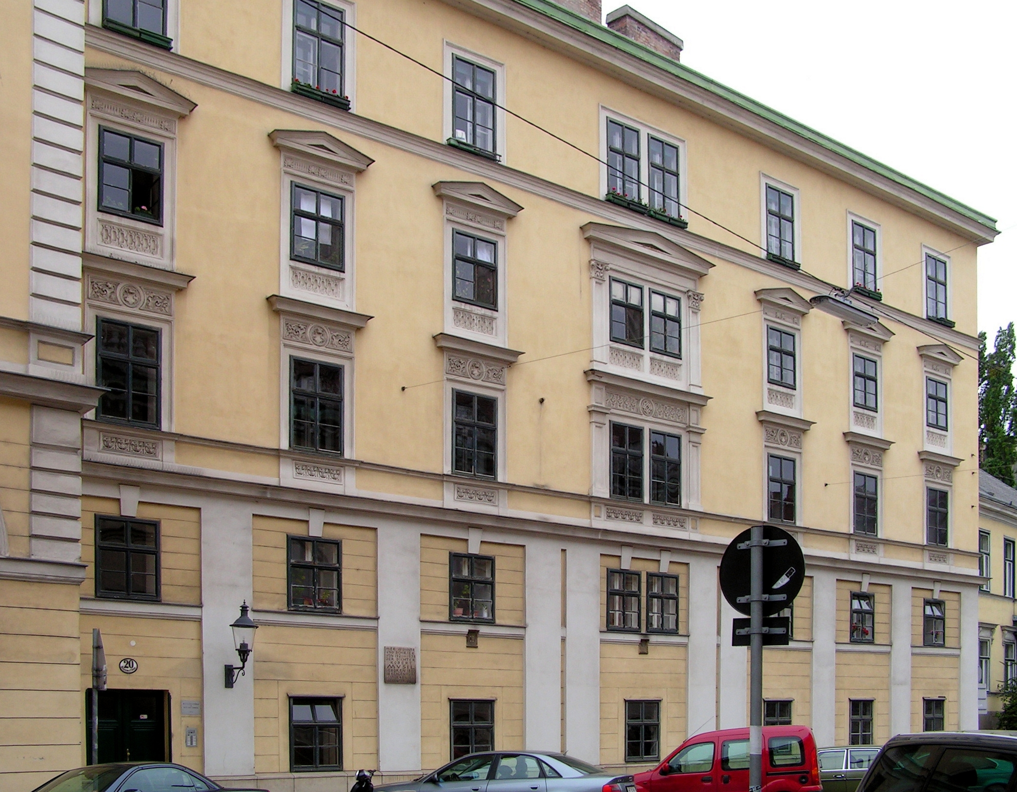 Residence of the Austrian writer Robert Musil (1880-1942) in the Rasumofskygasse 20 in Vienna (1921-1938)